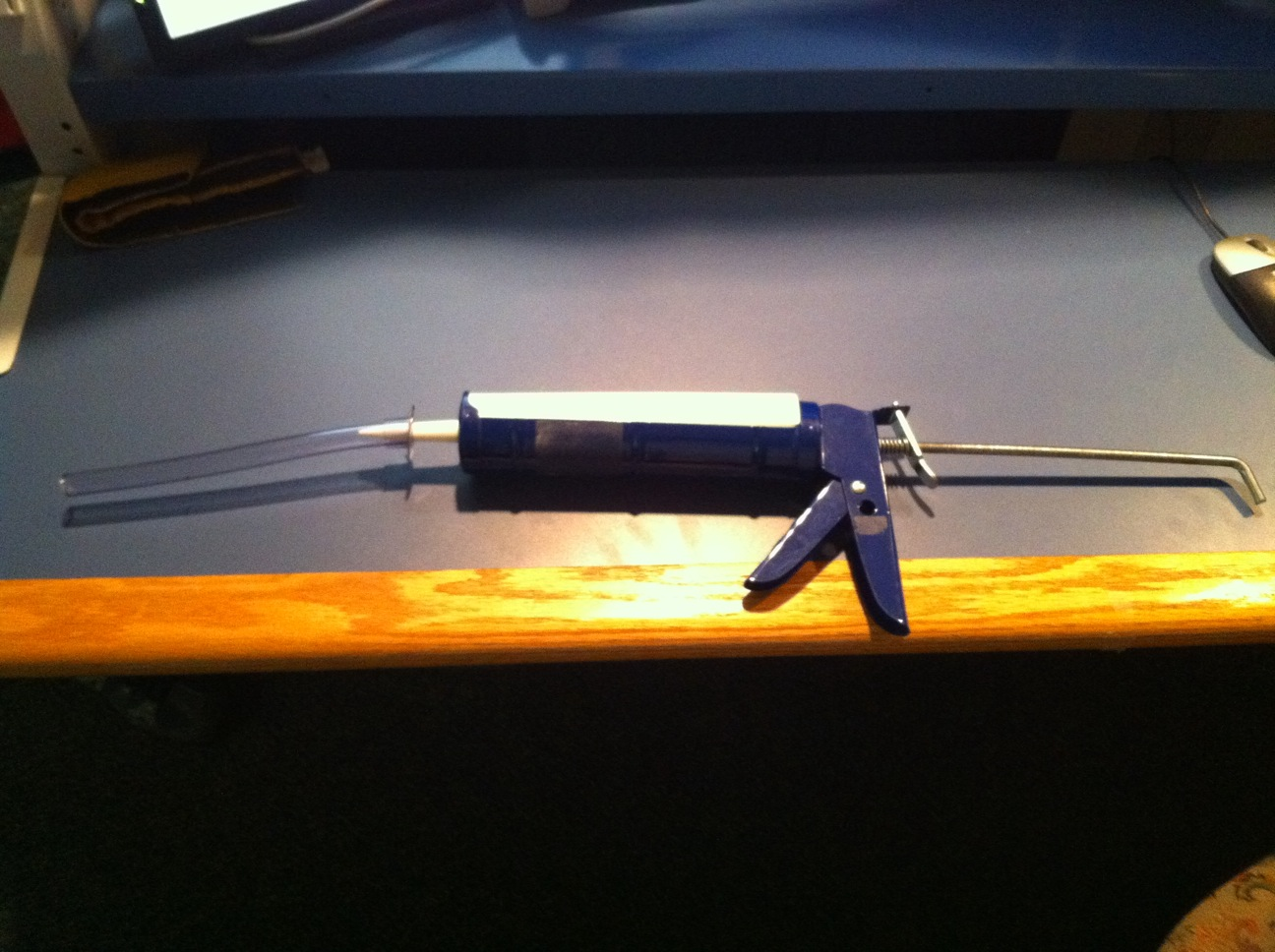 Caulk gun used for defecating proctogram